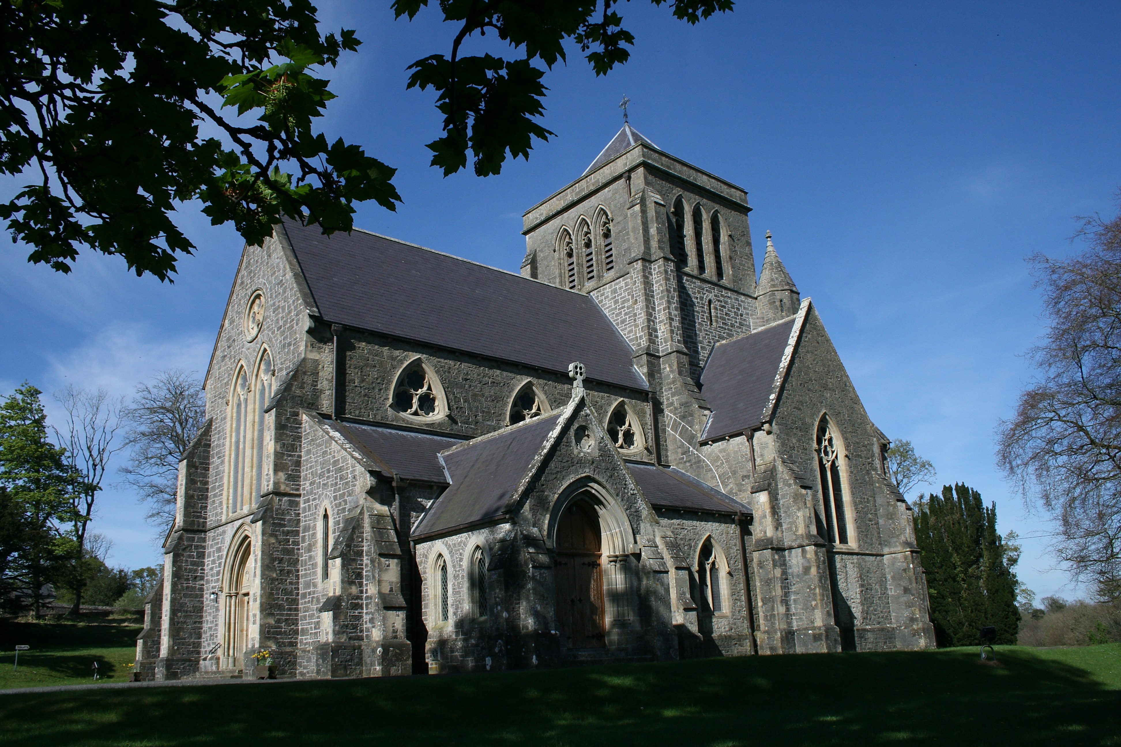 Kilmore Cathedral near Cavan Town